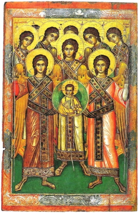 Assembly of the Bodiless Powers Icon from Sinitsa 65 X 42.8 X 3.3 Beginning of the 17th Century